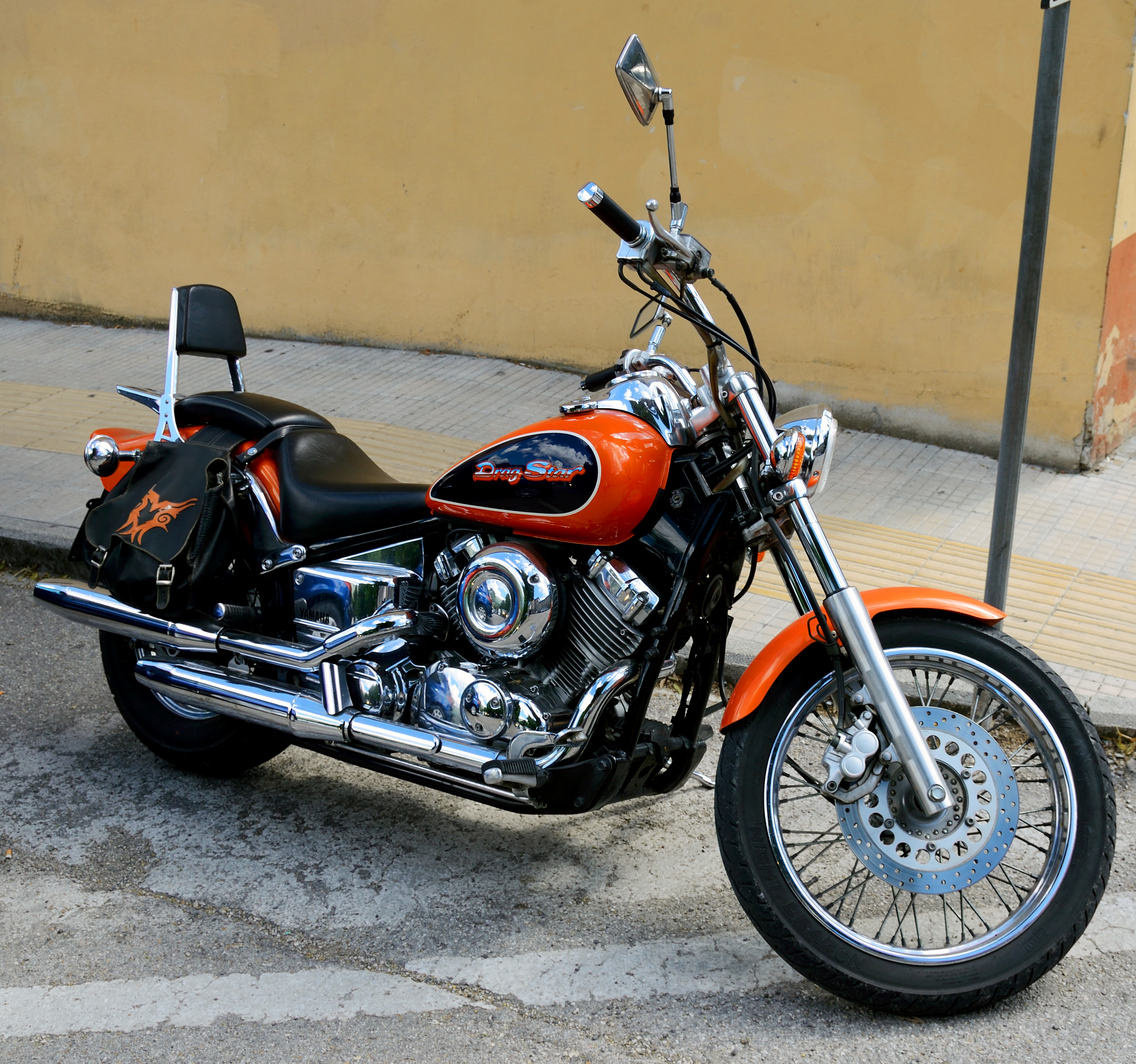 Yamaha XVS 650 Drag Star in Norcia